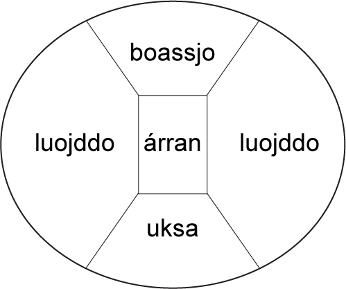 The basal division of a Sami hut according to Gustaf Ränk, "Grundprinciper för disponeringen av utrymmet i de Lapska kåtorna och gammerna" (1949) and Inga-Maria Mulk, "Sirkas" (1994). The oval form is typical of the hut built around four curved poles. The names of the different sectors are written with Lule Sami orthography. Árran is the hearth, always in the middle of the hut. Uksa is the section between the entrance and the hearth. Boassjo is the kitchen section, earlier regarded as a sacred room. Luojddo are the two side sections where the inhabitants of the hut resided.